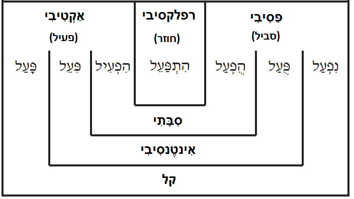 Binyanim